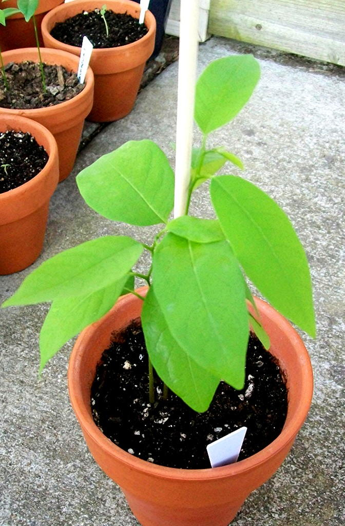 3 month old sugar apple